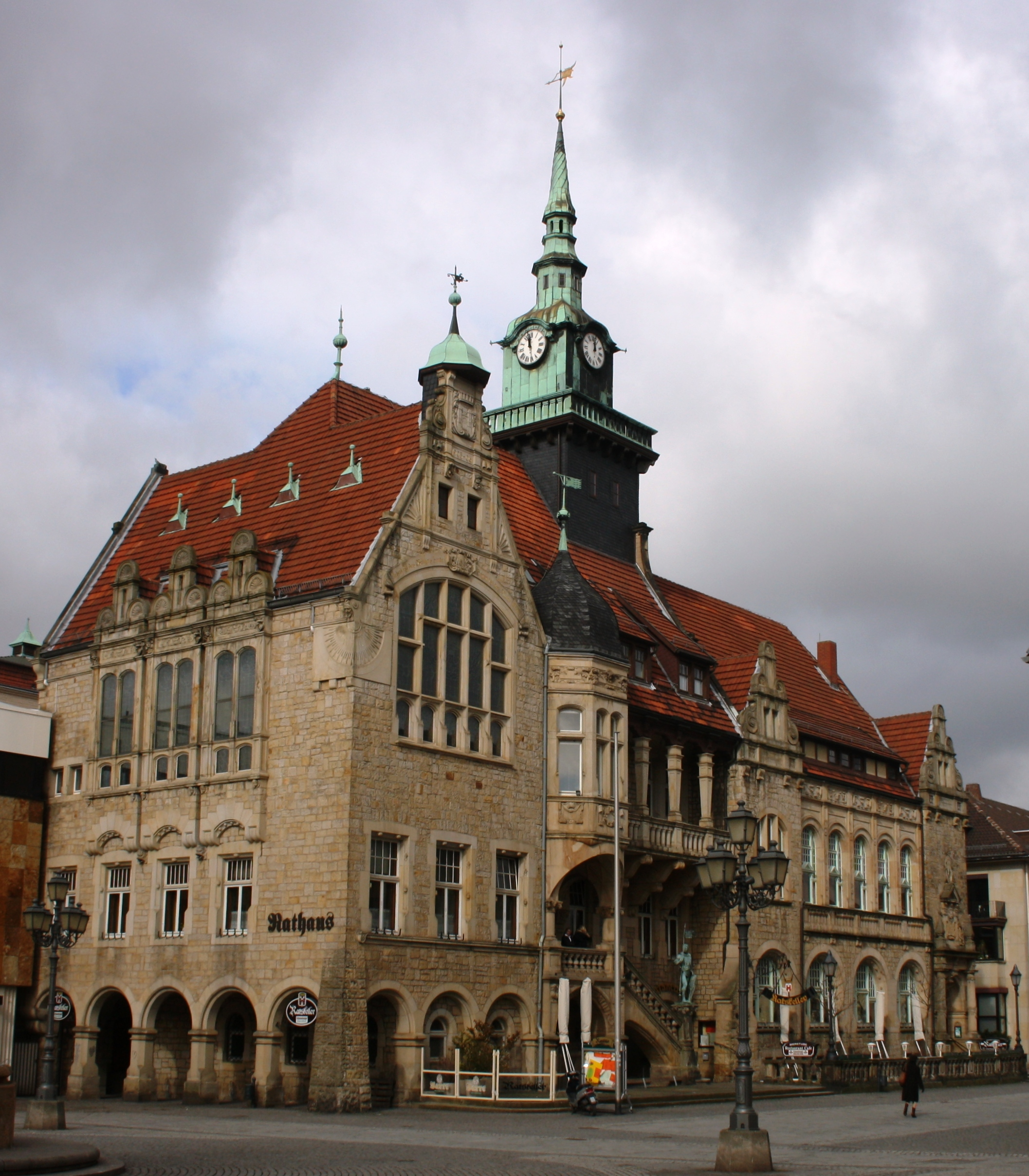 Bückeburg, Germany. Town hall from 1905/06.